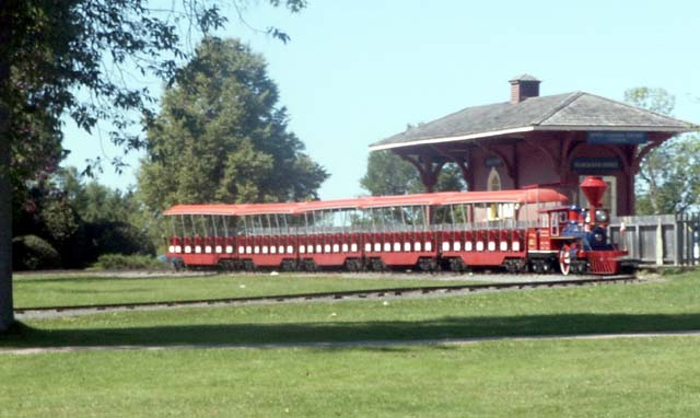 User:Carlb: Upper Canada Village in Morrisburg